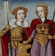 Orithyia and Antiope.